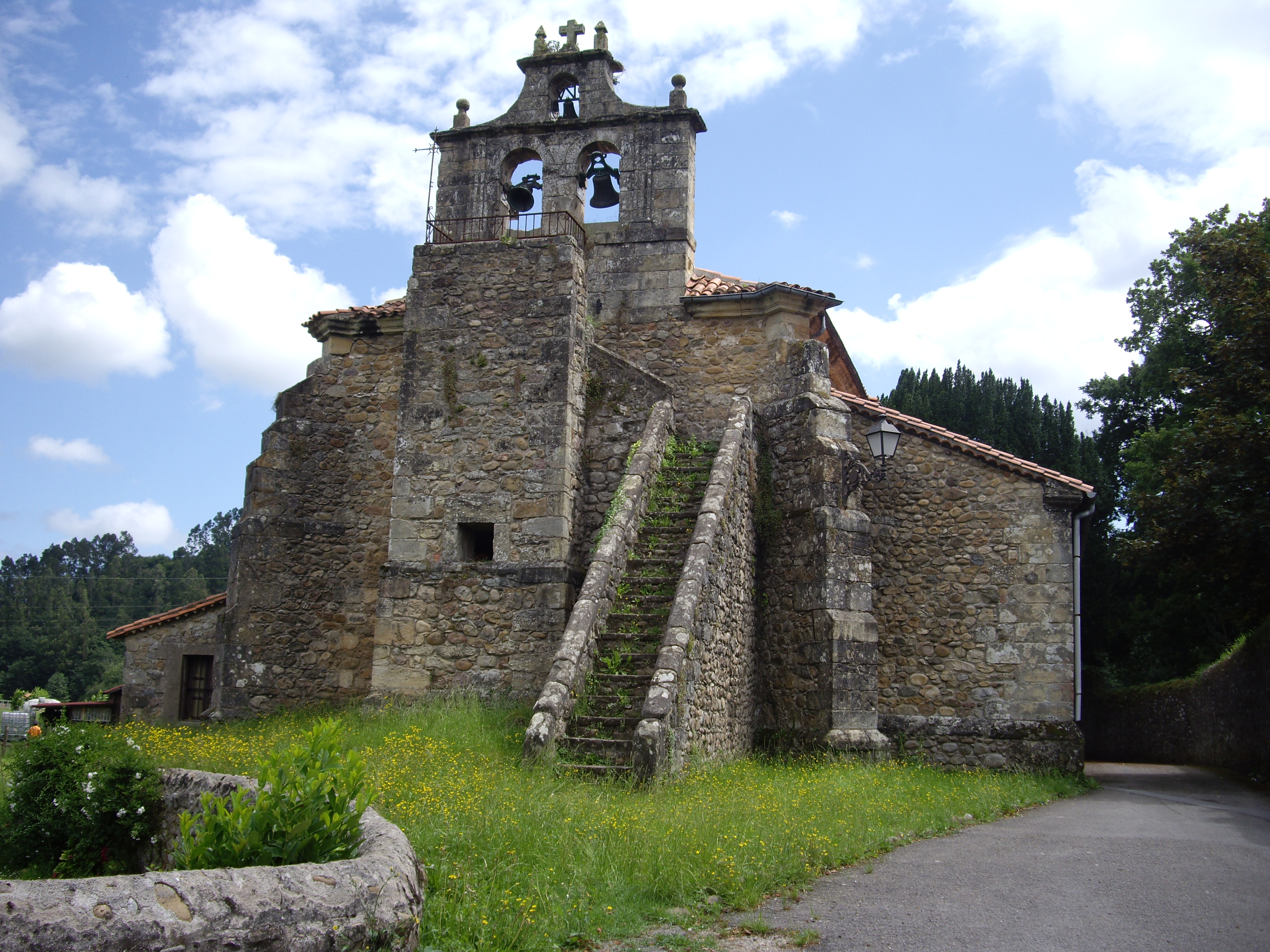 Church in Barcenaciones (Cantabria, Spain), dedicated to Saint John the Baptist. Last decades of the 17th century.